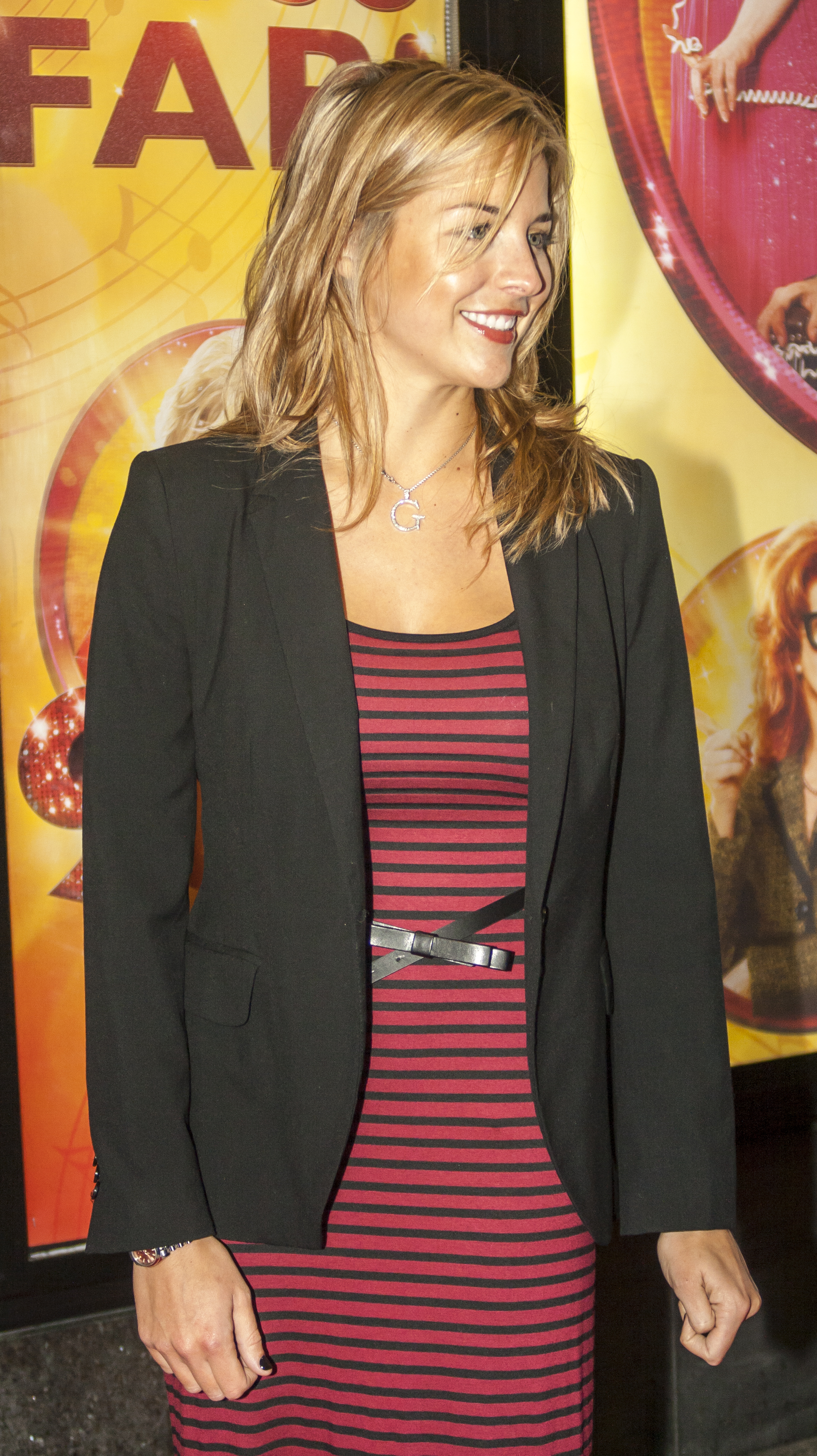 Gemma Atkinson outside the Manchester Opera House for a performance of the 9 to 5 musical.